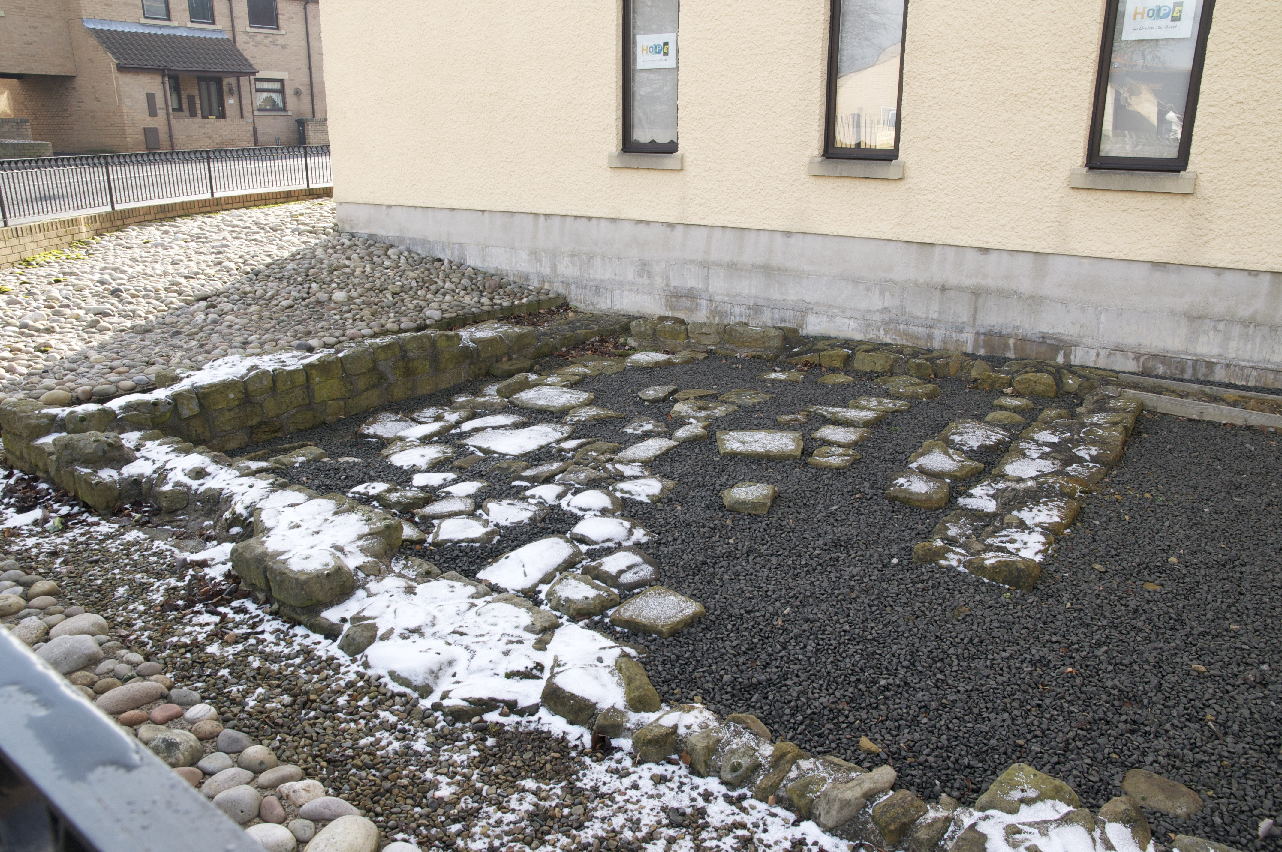 The officers quarters reconstruction at Concangis , Chester-le-Street, UK